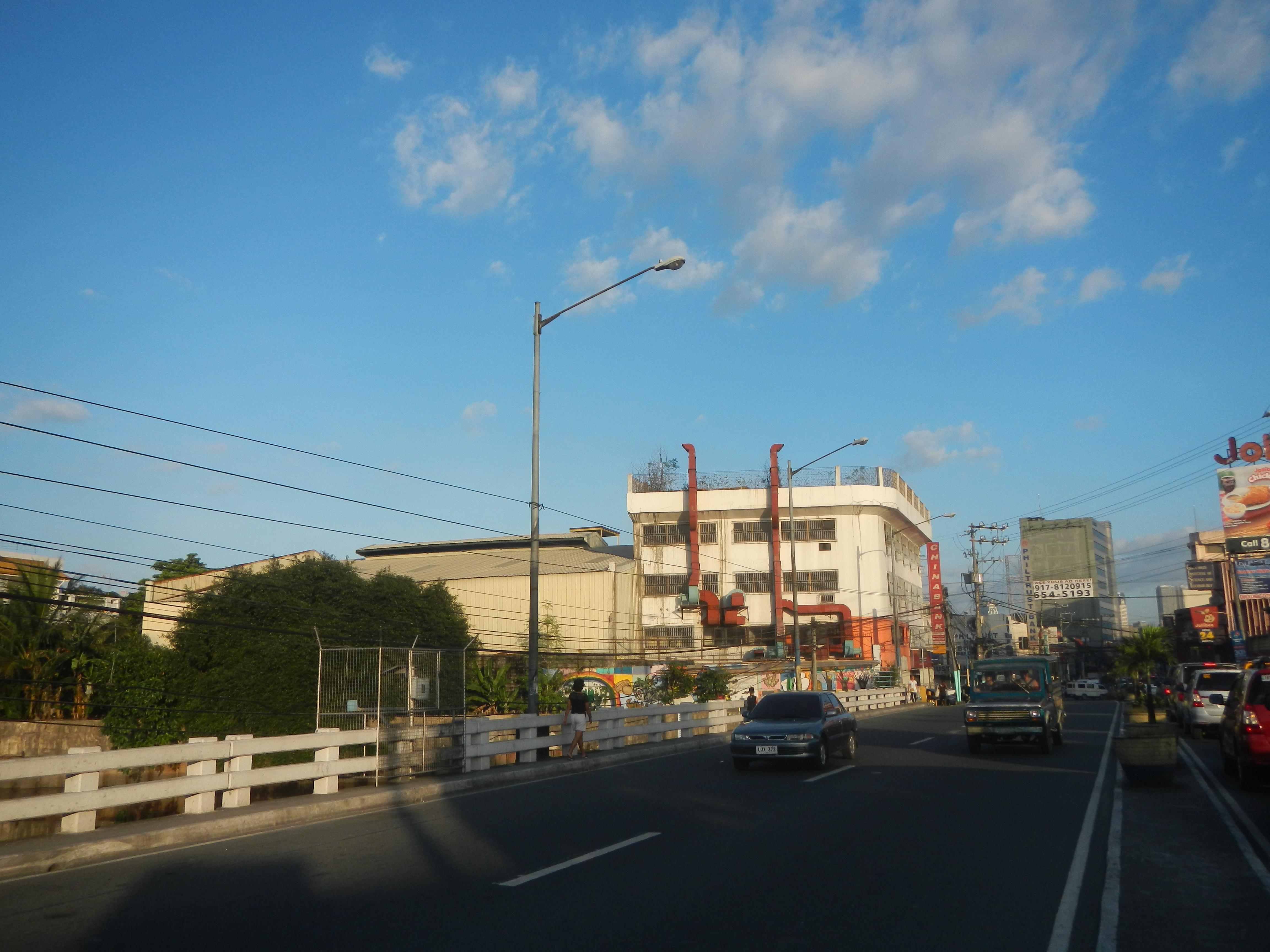 Sevilla Bridge (San Juan River, Shaw Boulevard Mandaluyong City) Load Limit 20 metric tons K0008+846 K0008+783length 63 meters P. Sanchez Street to Shaw Boulevard Santa Mesa District and Barangay Daang Bakal 14.595367°N 121.028065°E interconnecting with the Maligaya Bridge (Maytunas Creek, Shaw Boulevard Mandaluyong City) Load Limit 20 metric tons K0008+376 K0008+370 length 6 meters List of barangays of Metro Manila, Barangay Daang Bakal 14°35'35"N 121°1'40"E Mandaluyong City along Shaw Boulevard Radial Road 5 beside Santa Mesa, Manila District (Note: Judge Florentino Floro, the owner, to repeat, Donor Florentino Floro of all these photos hereby donate gratuitously, freely and unconditionally all these photos to and for Wikimedia Commons, exclusively, for public use of the public domain, and again without any condition whatsoever).